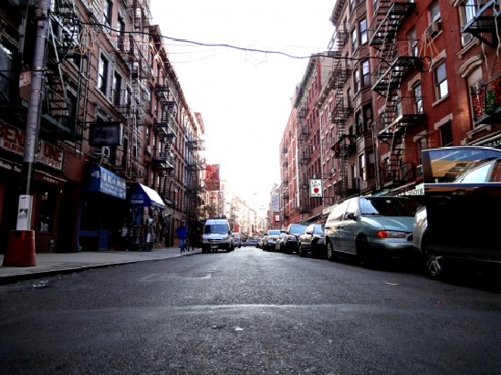 Little Italy that served as the backdrop for the music video "Eh, Eh (Nothing Else I Can Say)"